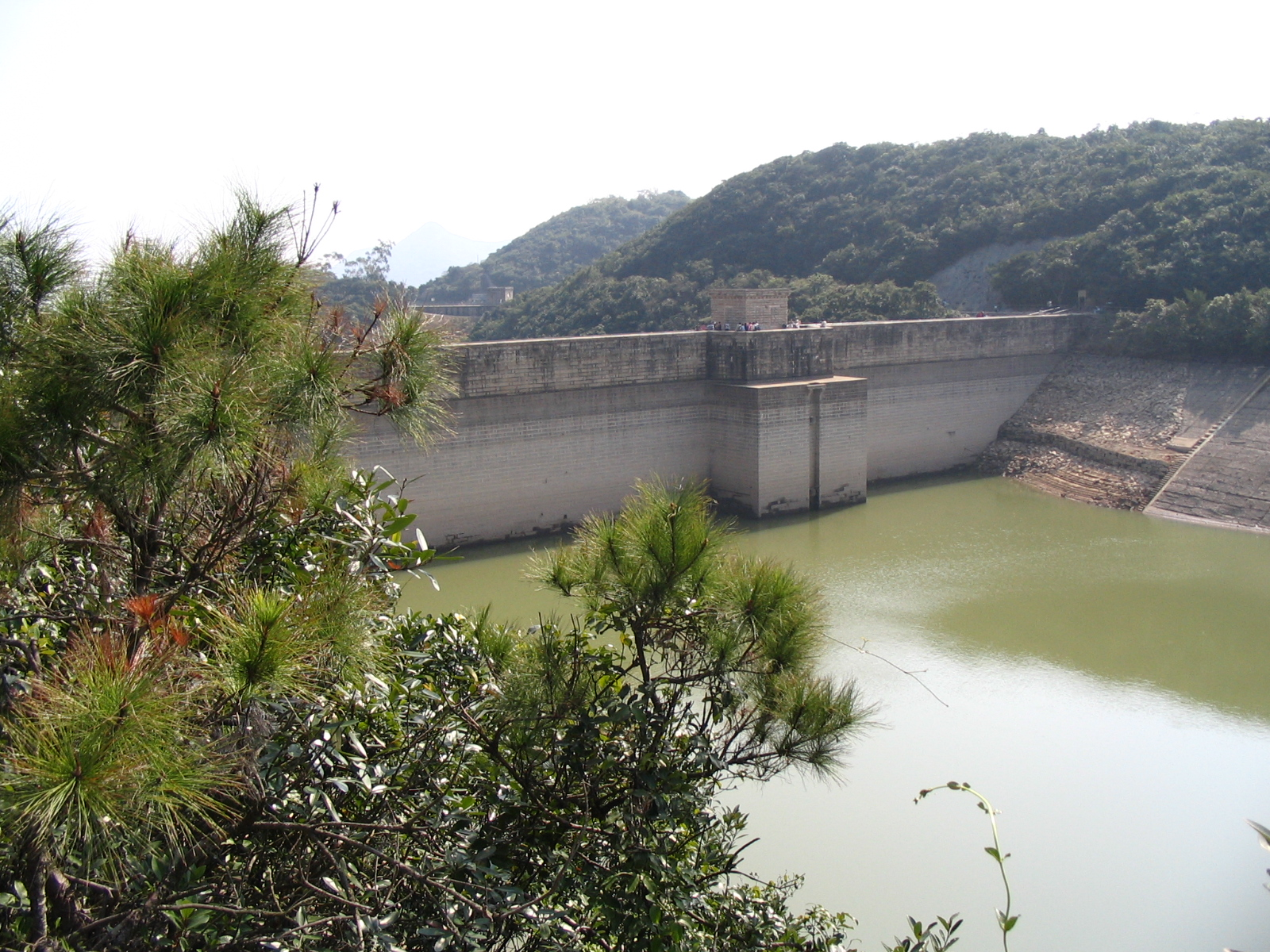 Photo of Tai Tam Reservoir